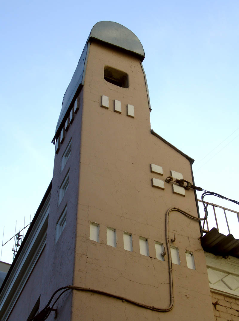 Prospect Mira, Moscow - this is an ornament on top of a transformer shed built in 1907 to power electric trams.